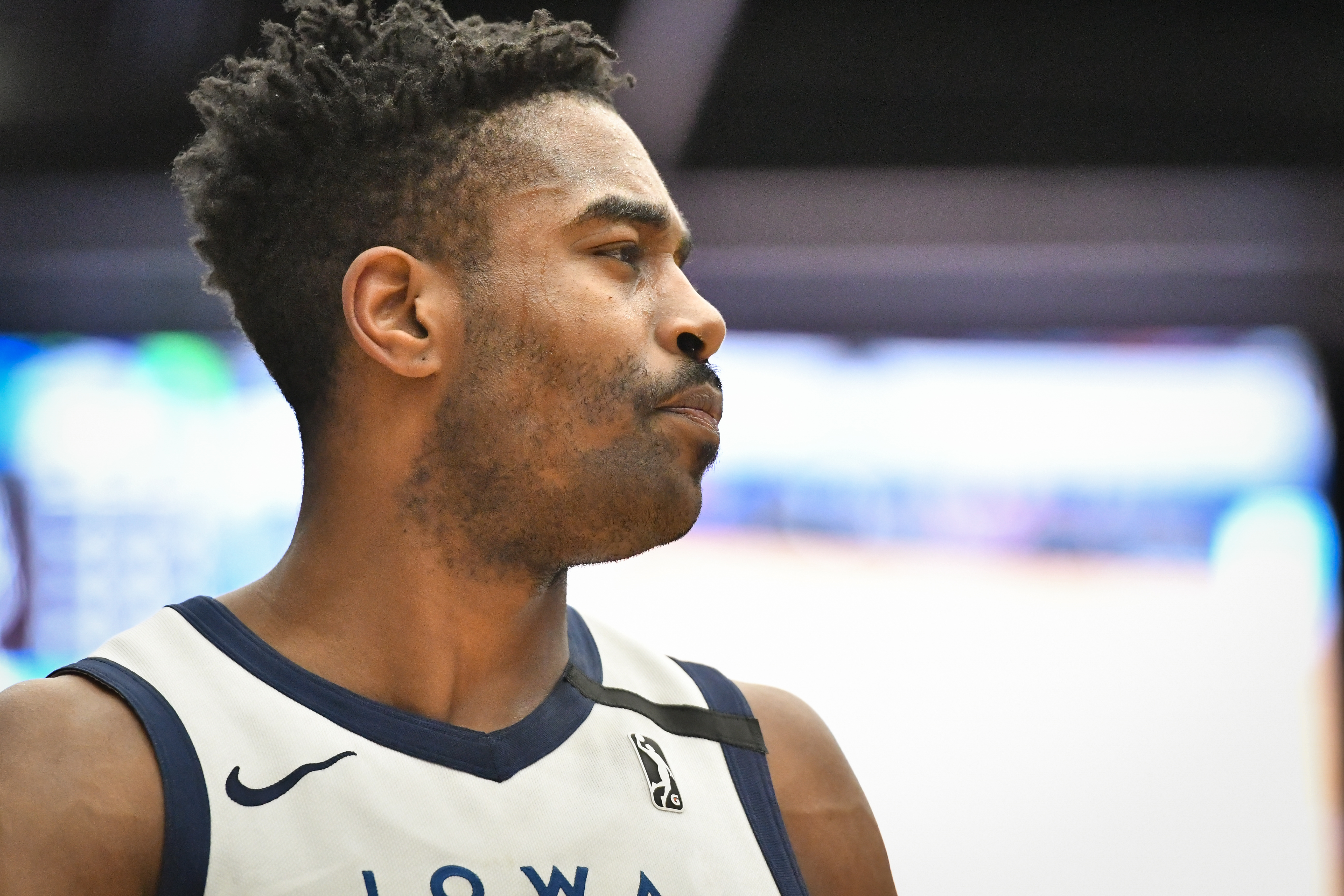 Kelan Martin. Lakeland Magic vs Iowa Wolves. RP Funding Center. Lakeland, Fla. Jan. 18, 2020. (Photo by Tom Hagerty.)